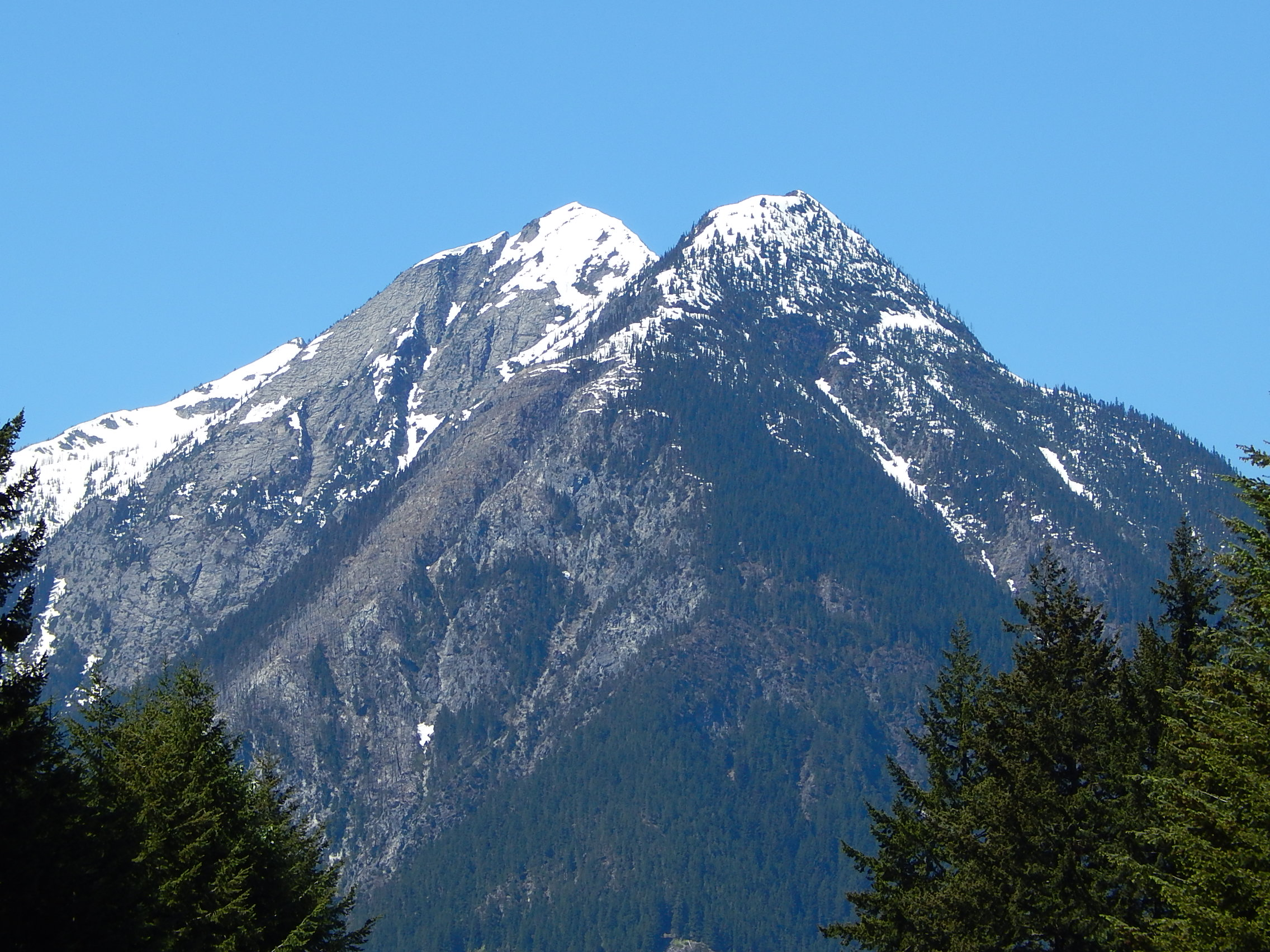 Ruby Mountain's east aspect seen from the North Cascades Highway in Washington state